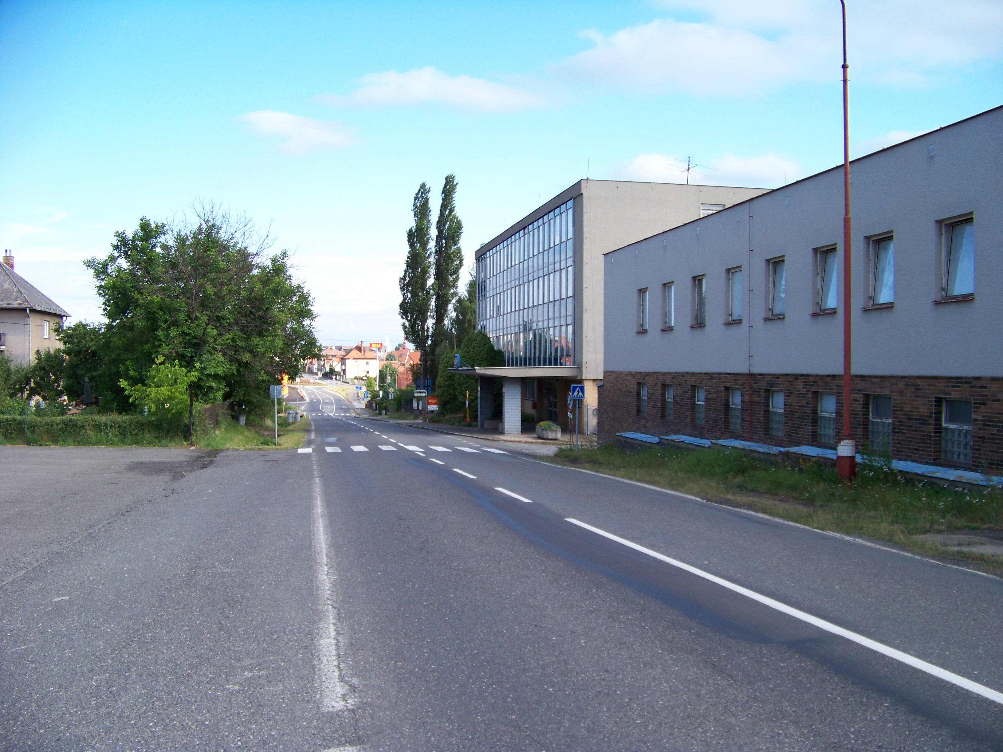 Sedlčany, Příbram District, Central Bohemian Region, the Czech Republic. Sedlecká street, KDS factory.